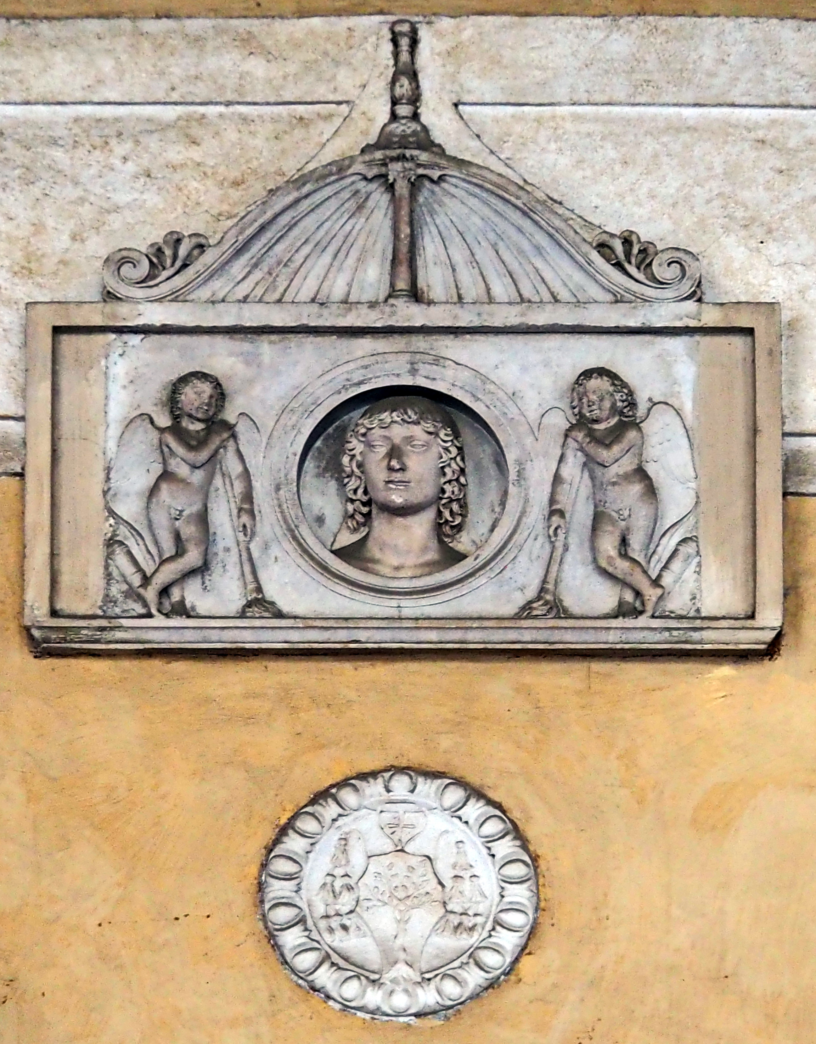 Funeral monument for Lorenzo Oddone Colonna; Santi Apostoli (Rome); Luigi Capponi